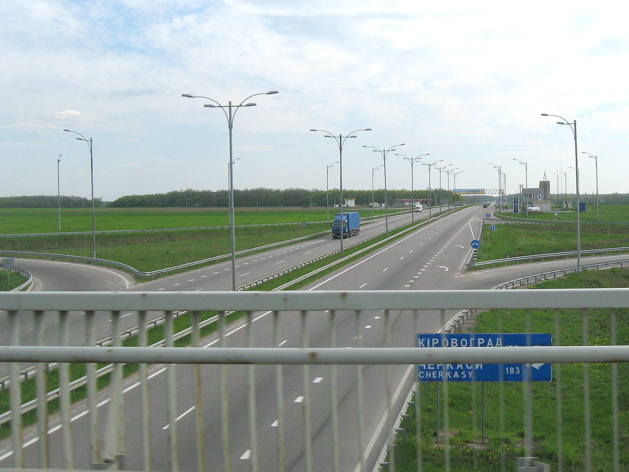 Highway M05, (european E95) in Uman, Cherkasy Oblast, Ukraine (it is M05, crossing M12/E50 from where the photo is taken. The file name is wrong.)